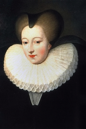 Portrait of Catherine de Parthenay